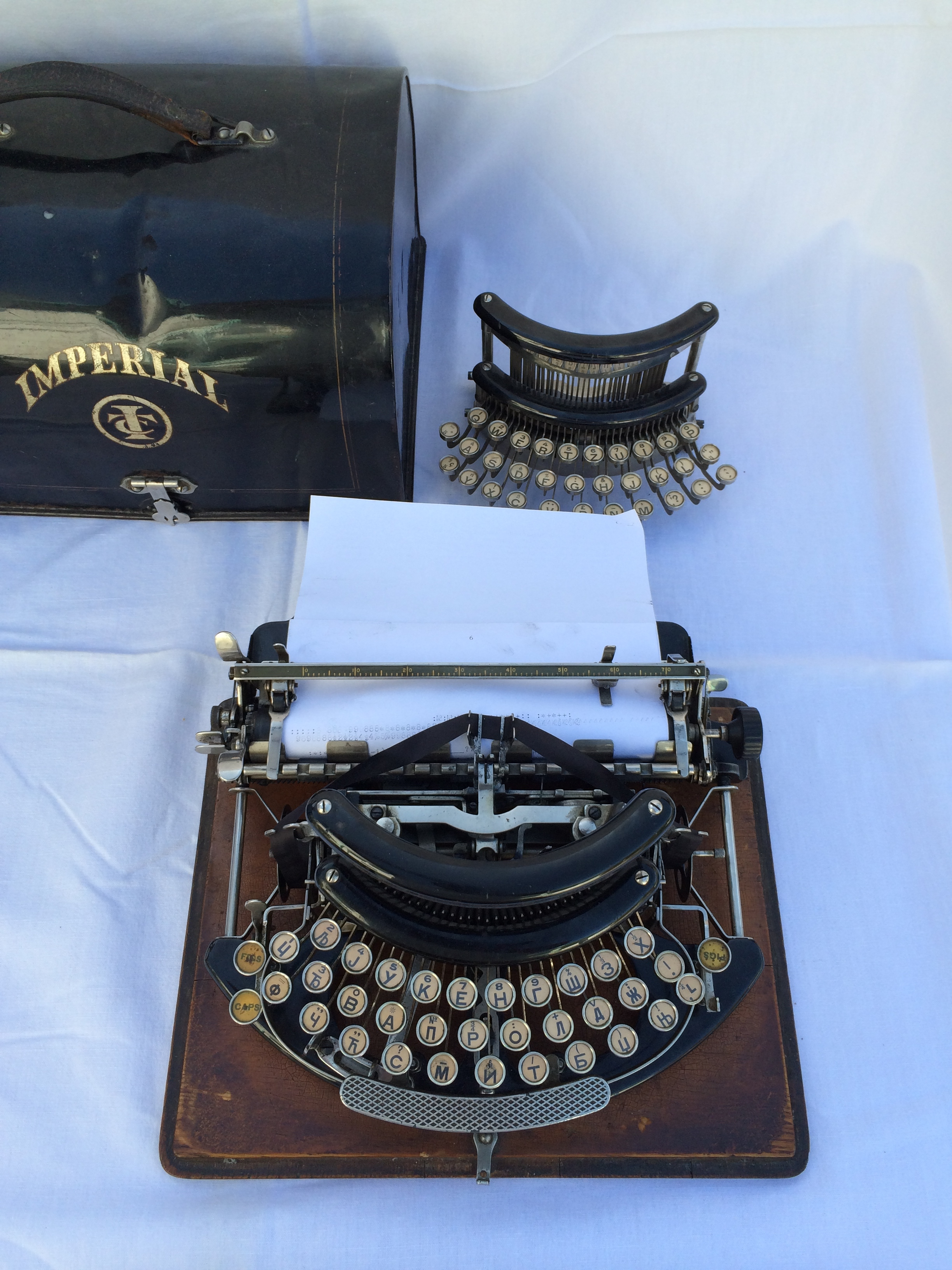 The typewriter of Gvido Tartalja, Serbian writer, with both cyrillic and latin letters. It can be found in the Society for Culture, Art and International Cooperation Adligat in Belgrade, Serbia. Српски (ћирилица): Писаћа машина Гвиде Тартаља, са ћириличним и латиничним словима. Налази се у Удружењу за културу, уметност и међународну сарадњу „Адлигат“ у Београду.